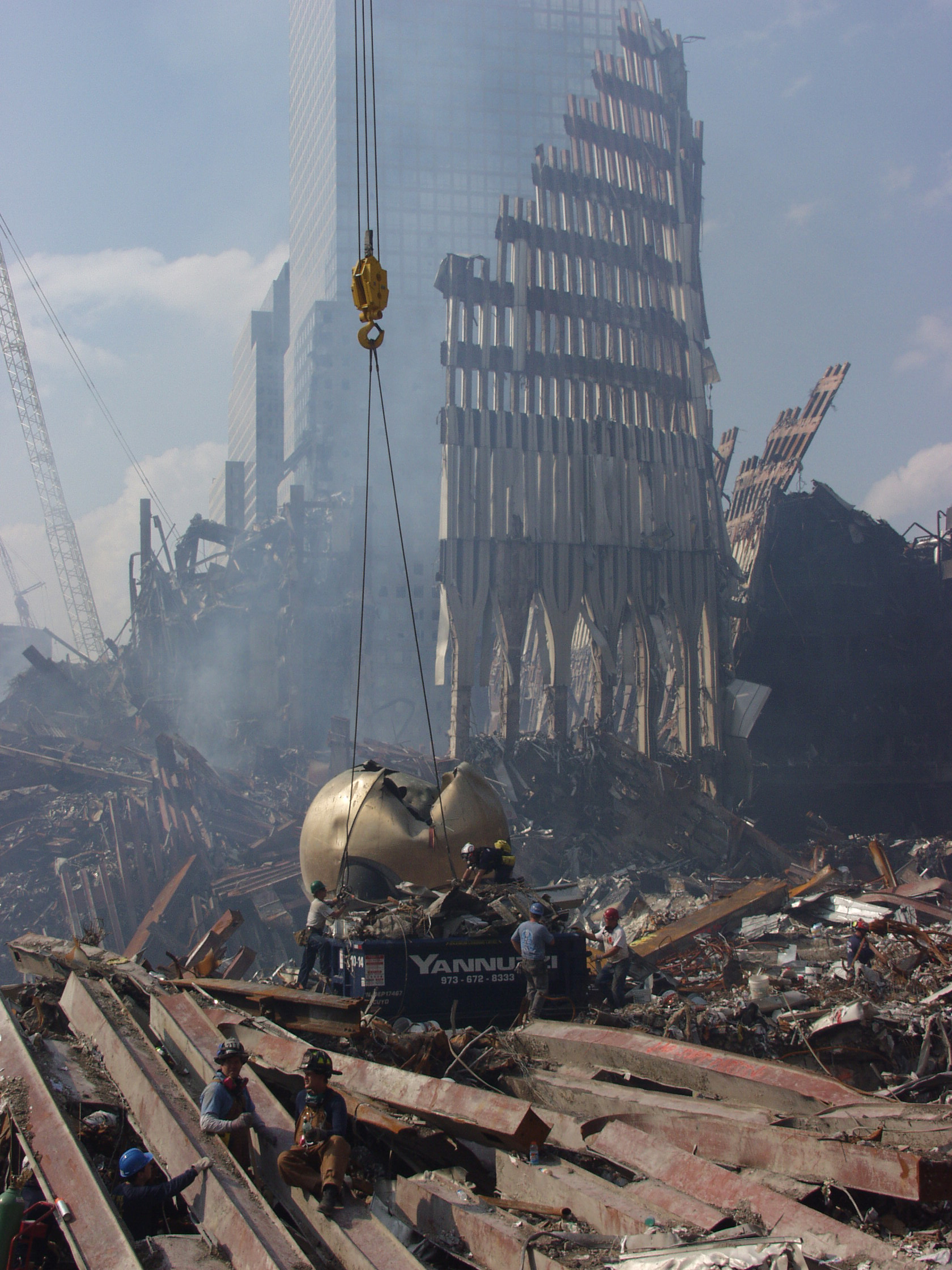 New York, NY, September 21, 2001 -- Workers use cranes to haul tons of rubble from the site of the World Trade Center. Photo by Michael Rieger/ FEMA News Photo